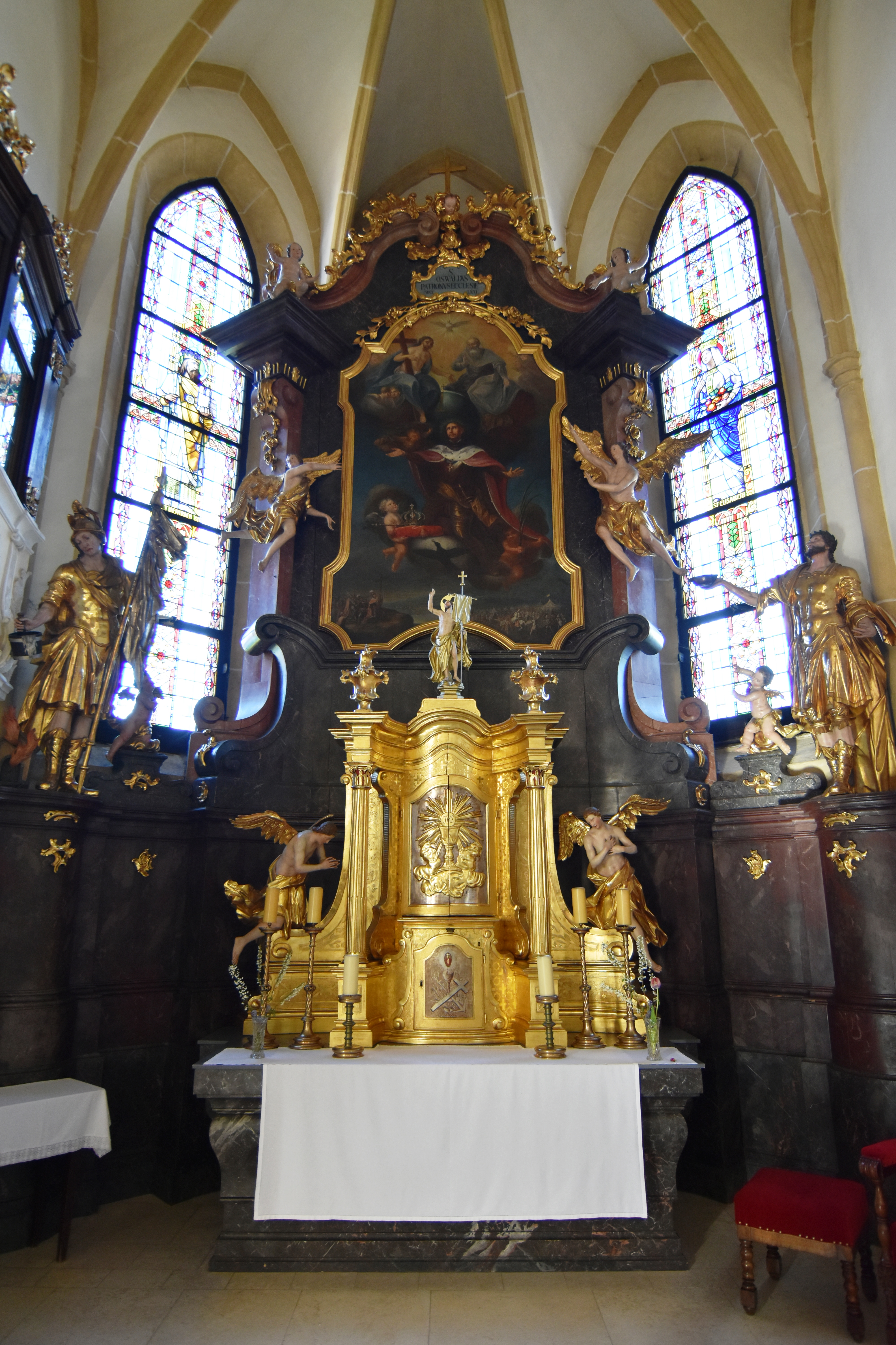 Saint Oswald of Northumbria Church Kapfenberg Interior